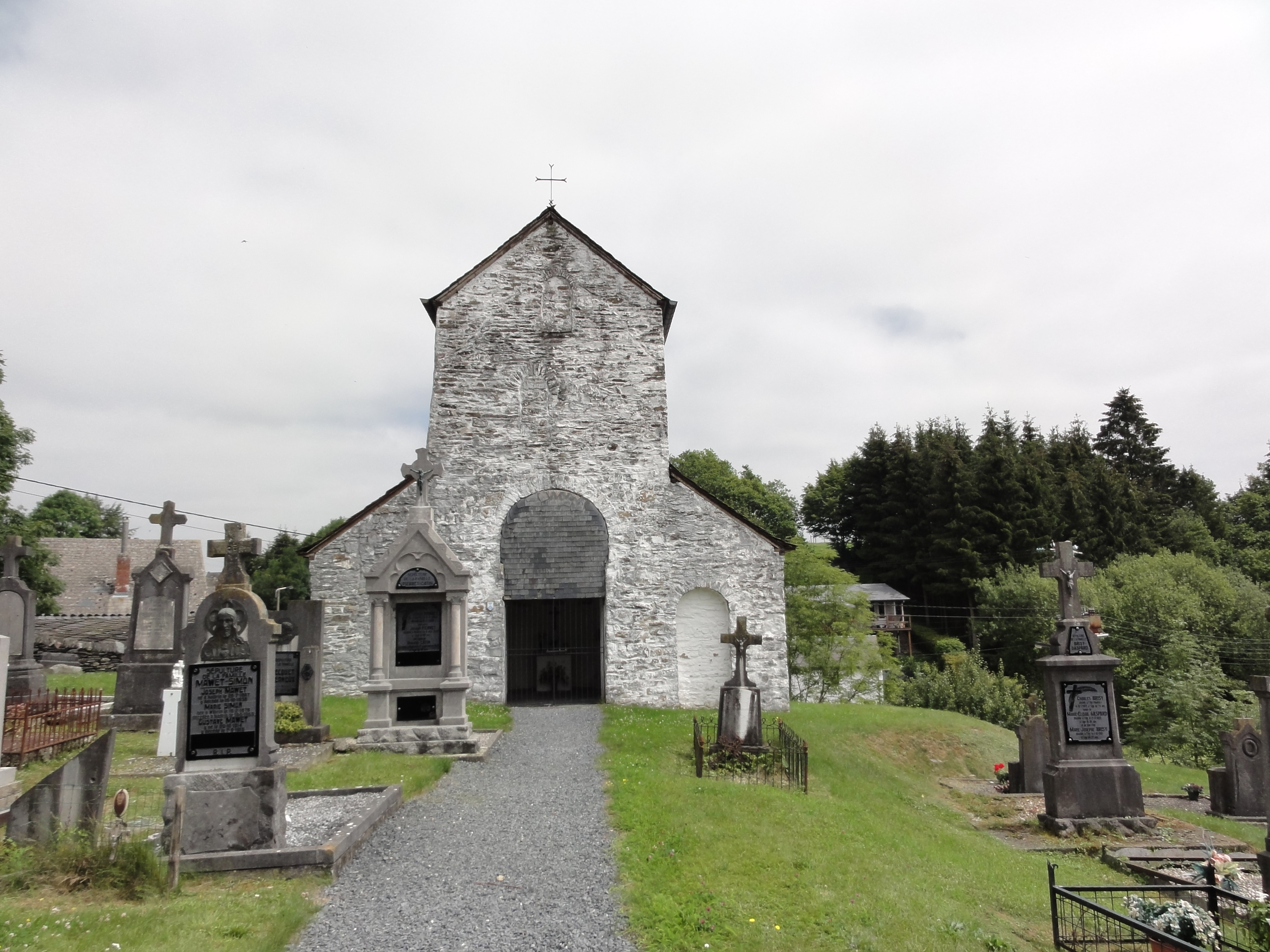 Saint Margaret's church in Ollomont, Nadrin, Houffalize, Belgium